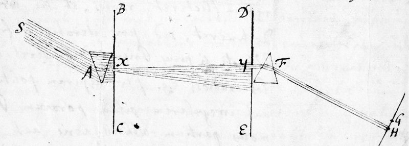 Illustration taken from Newton's original letter to the Royal Society (1 January 1671 [Julian calendar]). S represents sunlight. The light between the planes BC and DE are in colour. These colours are recombined to form sunlight on the pane GH